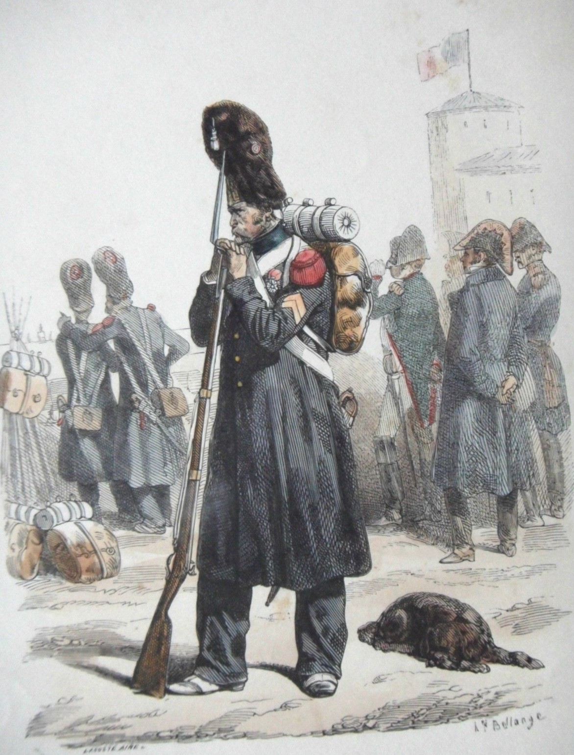 Grenadier of the old guard 1813 Source: Napoleon, His Army and Enemies.